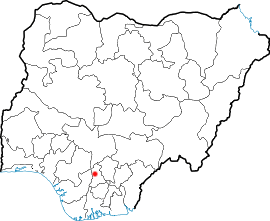 Awka, Nigeria Location Map, Adapted from Locator Map Aba-Nigeria.png which was made by User:Civvi at Wikimedia Commons